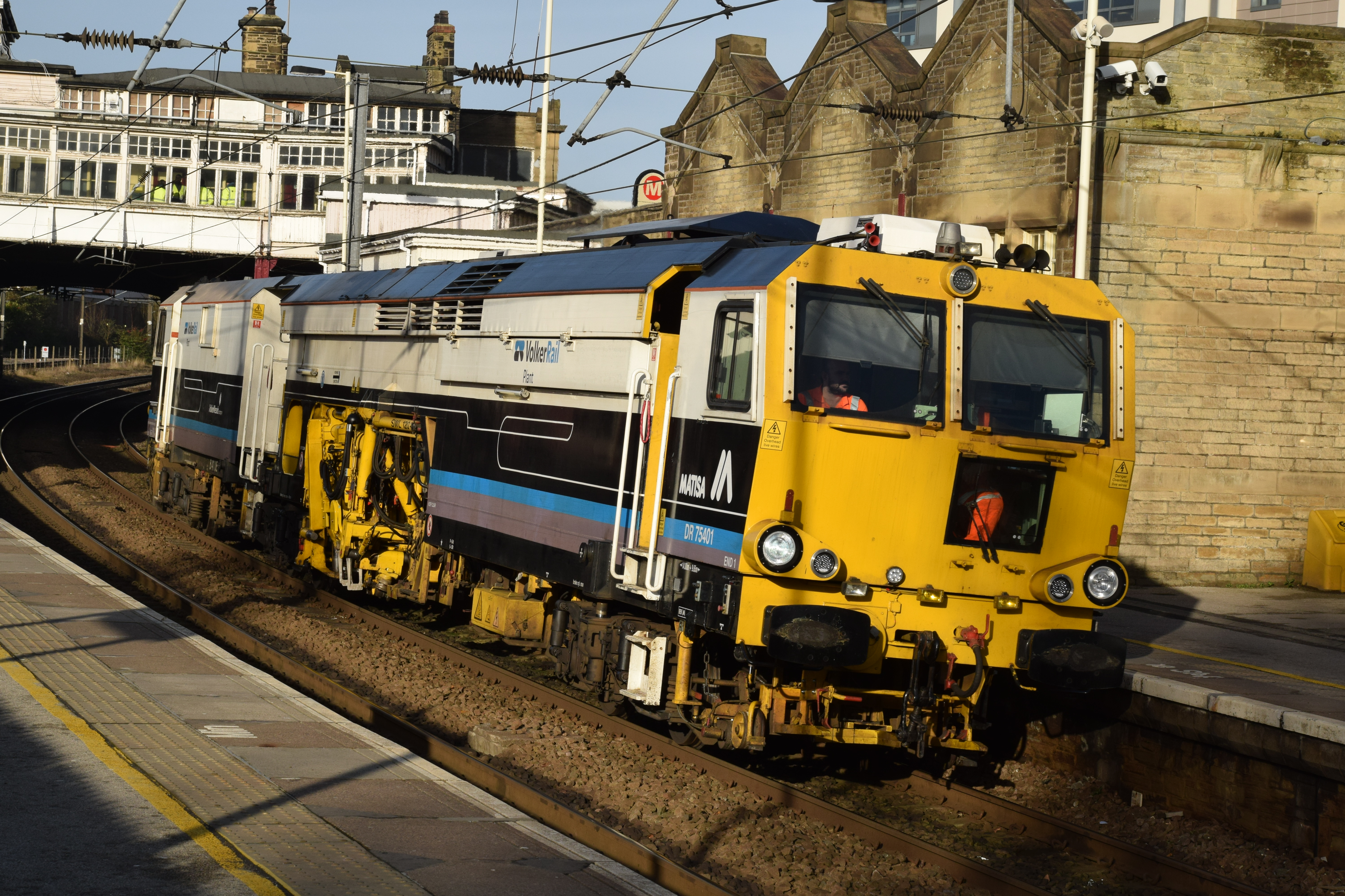 Running south through Keighley is a Matisa B41UE - Volker Rail Plant, Tamper. No.DR75401. It has just worked off the Keighley & Worth Valley Railway and is running to Ferryhill Soutth Jnc on 3rd February 2017.